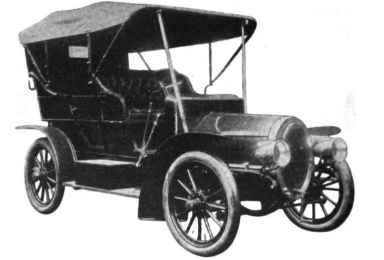 The photo is from an article entitled: "The Ariel, 1906, 30 H.P. Four Cylinder Touring Car" on page 116 in the April 1906 issue of Cycle and Automobile Trade Journal. The scan is from the Google Book archive. Title Automobile trade journal, Volume 10 Publisher Chilton Company, 1906 Original from the University of Michigan Digitized Oct 2, 2007